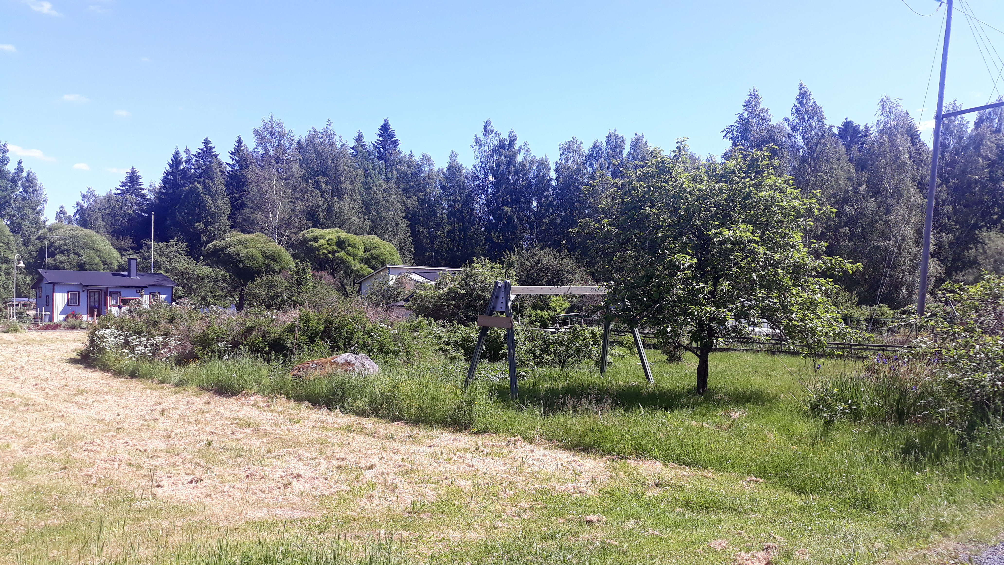 Vanhamylly allotment garden area in Hyvinkää.